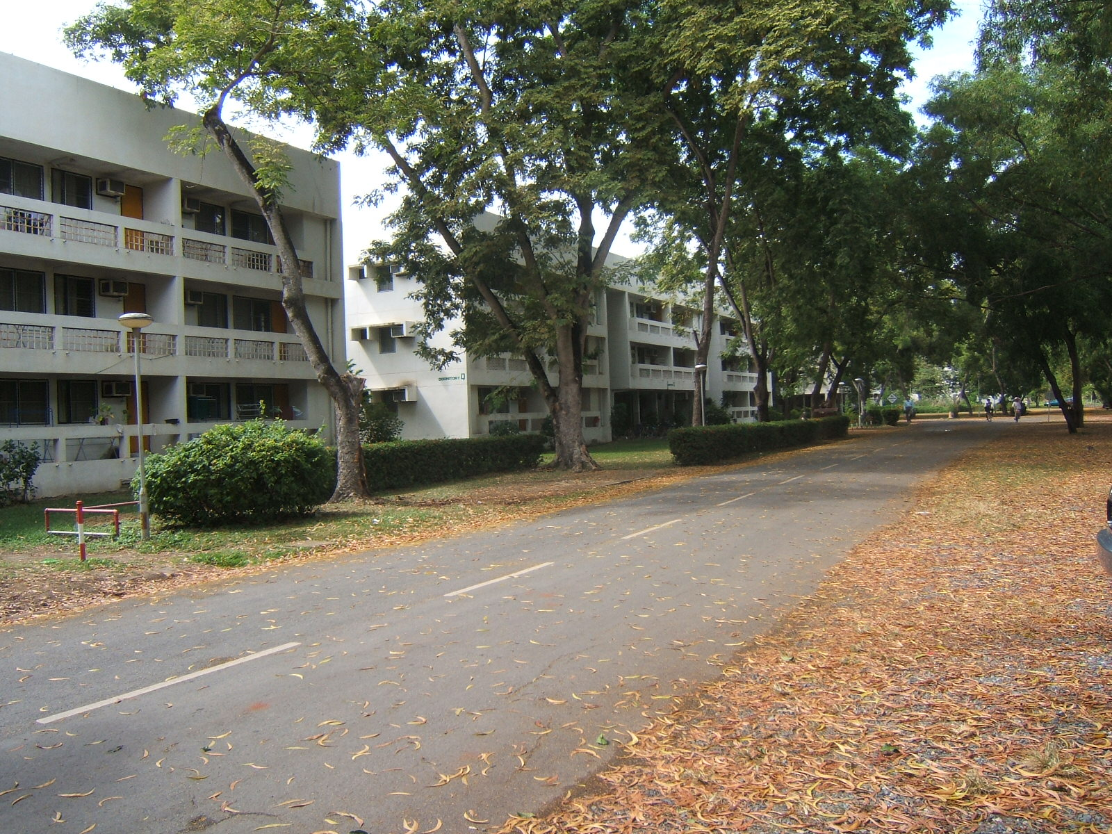 Asian Institute of Technology, Pathum Thani, Thailand